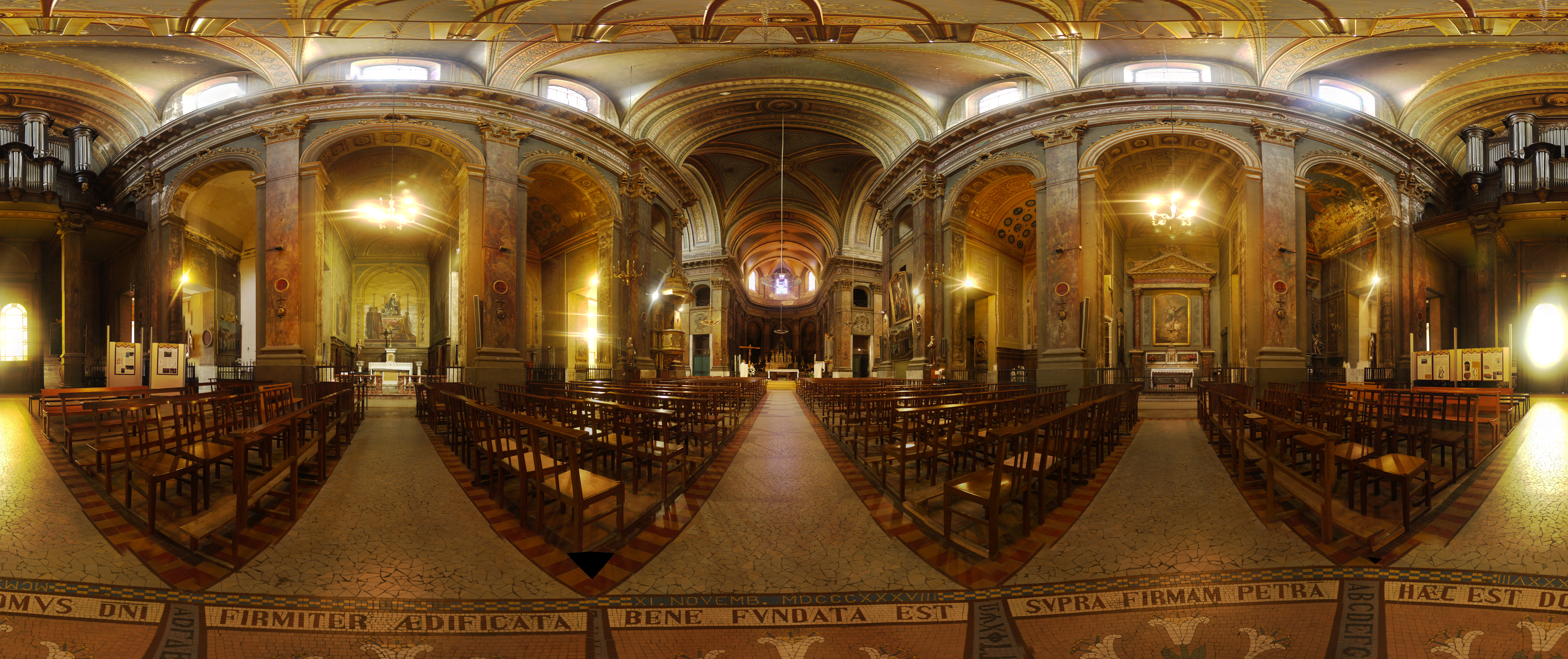 interior of the basilica of the Daurade, Toulouse, France.